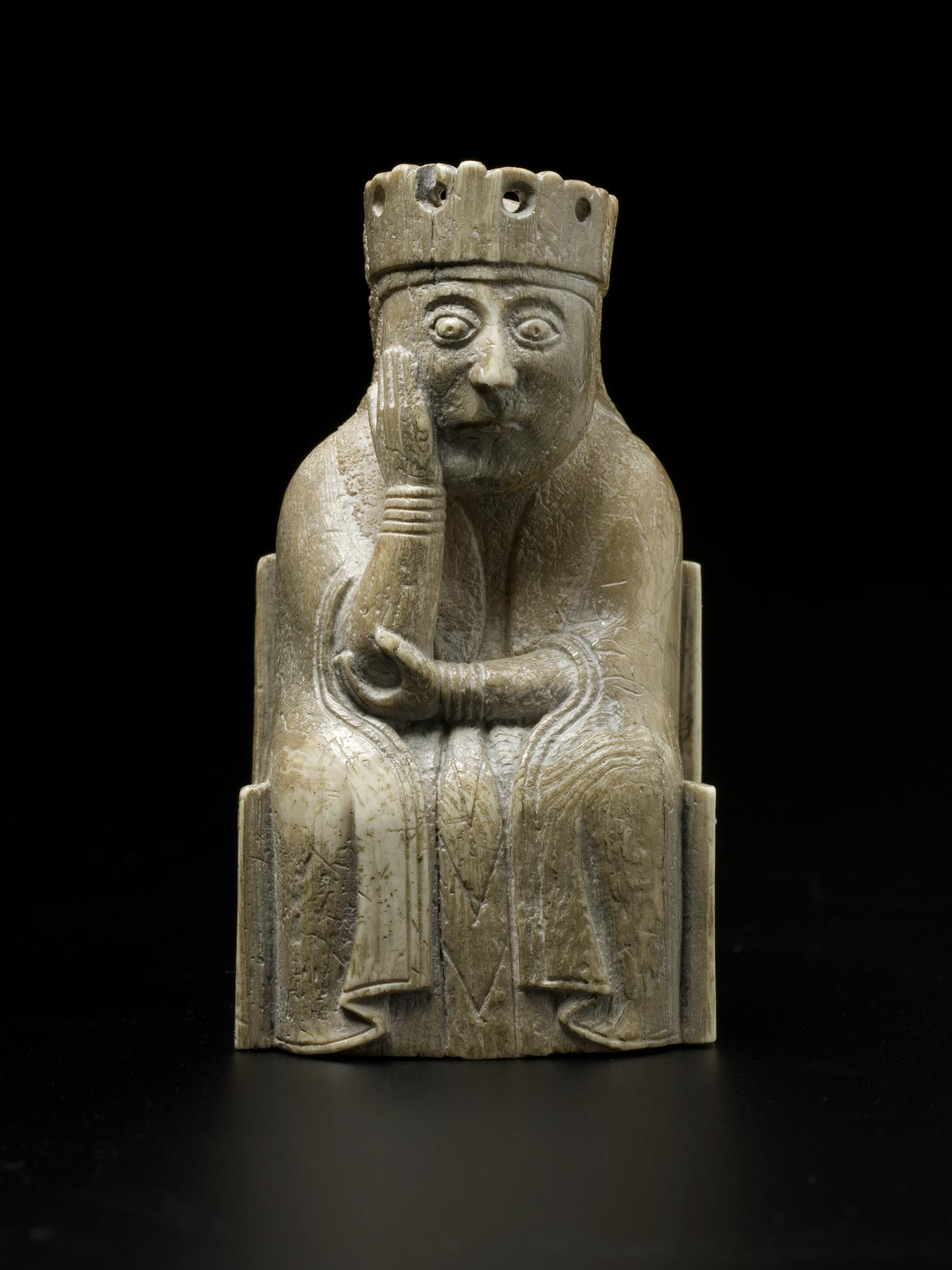 This file was uploaded as part of a partnership between Wikimedia UK and the National Museum of Scotland. This tag does not indicate the copyright status of the attached work. A normal copyright tag is still required. See Commons:Licensing. This work is free and may be used by anyone for any purpose. If you wish to use this content, you do not need to request permission as long as you follow any licensing requirements mentioned on this page.